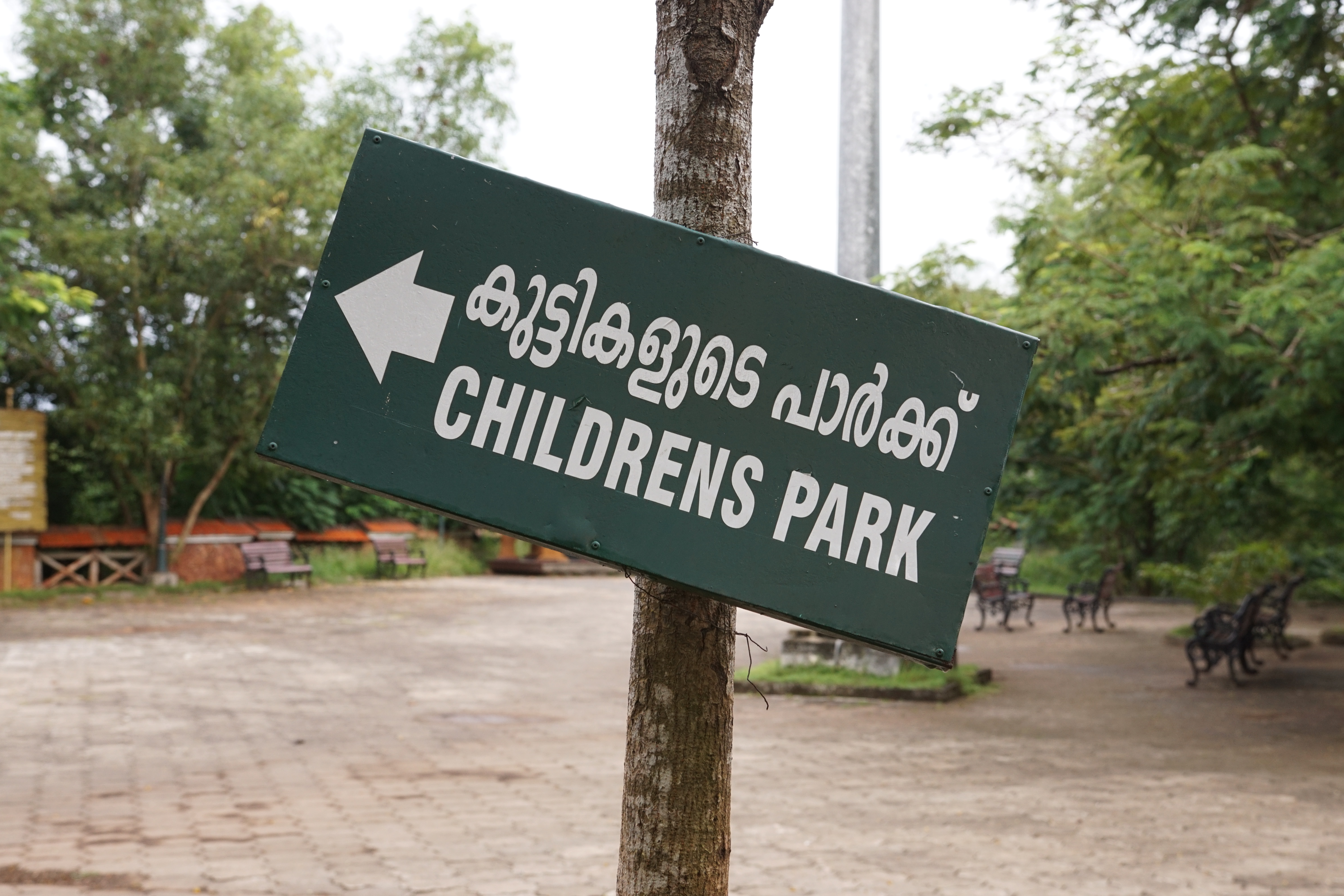 Sarovaram